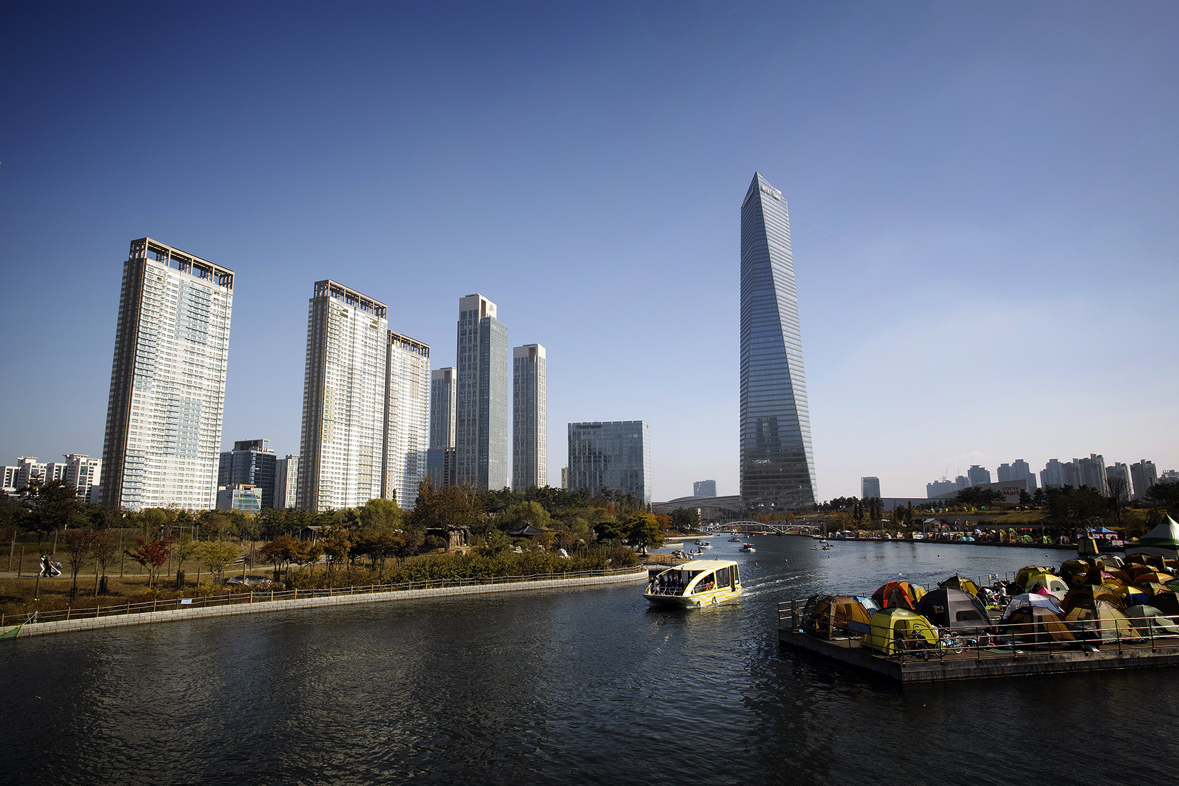 Songdo's central park and the NEATT